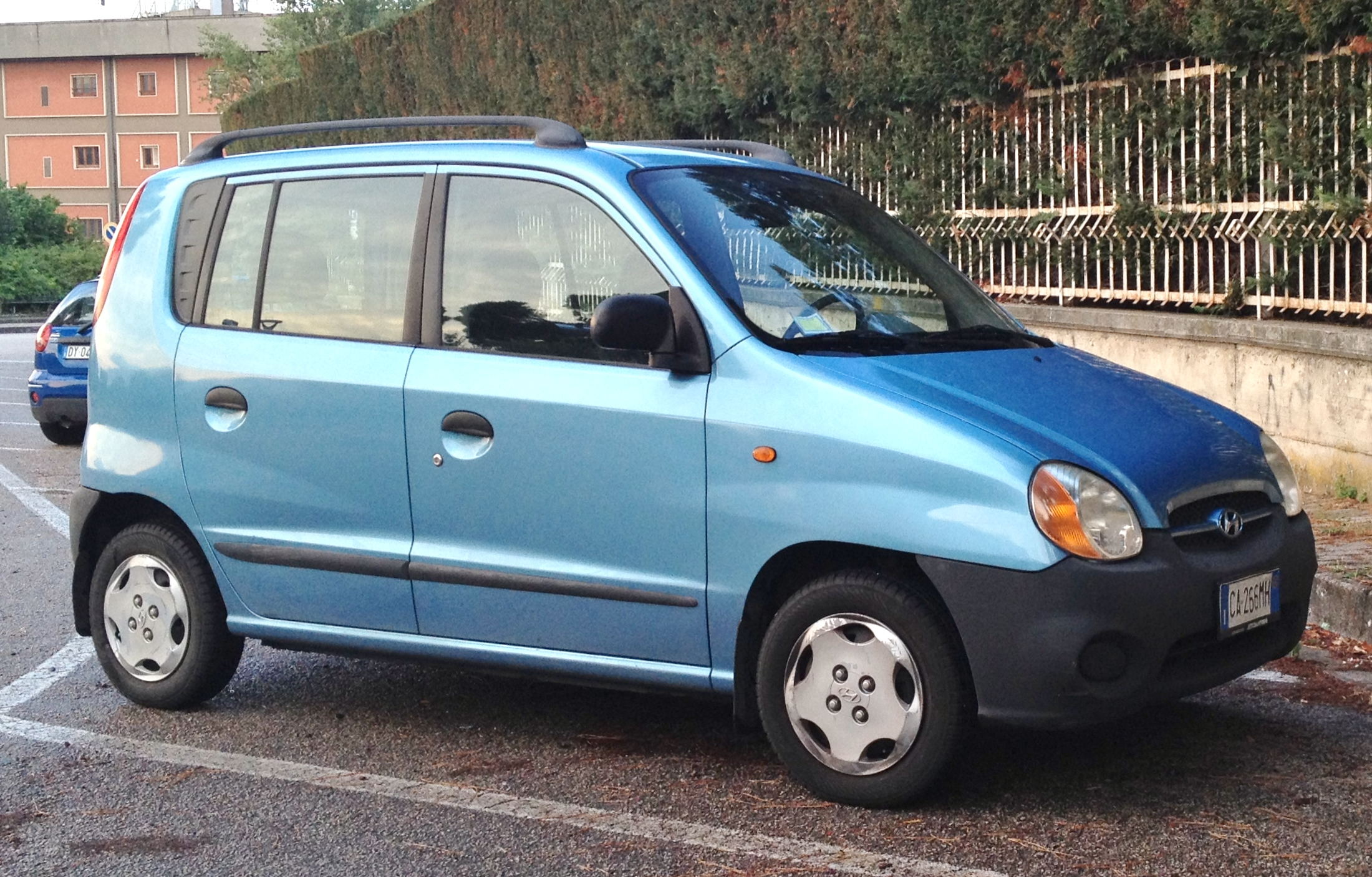 Hyundai Atos 1.0 facelift in Italy